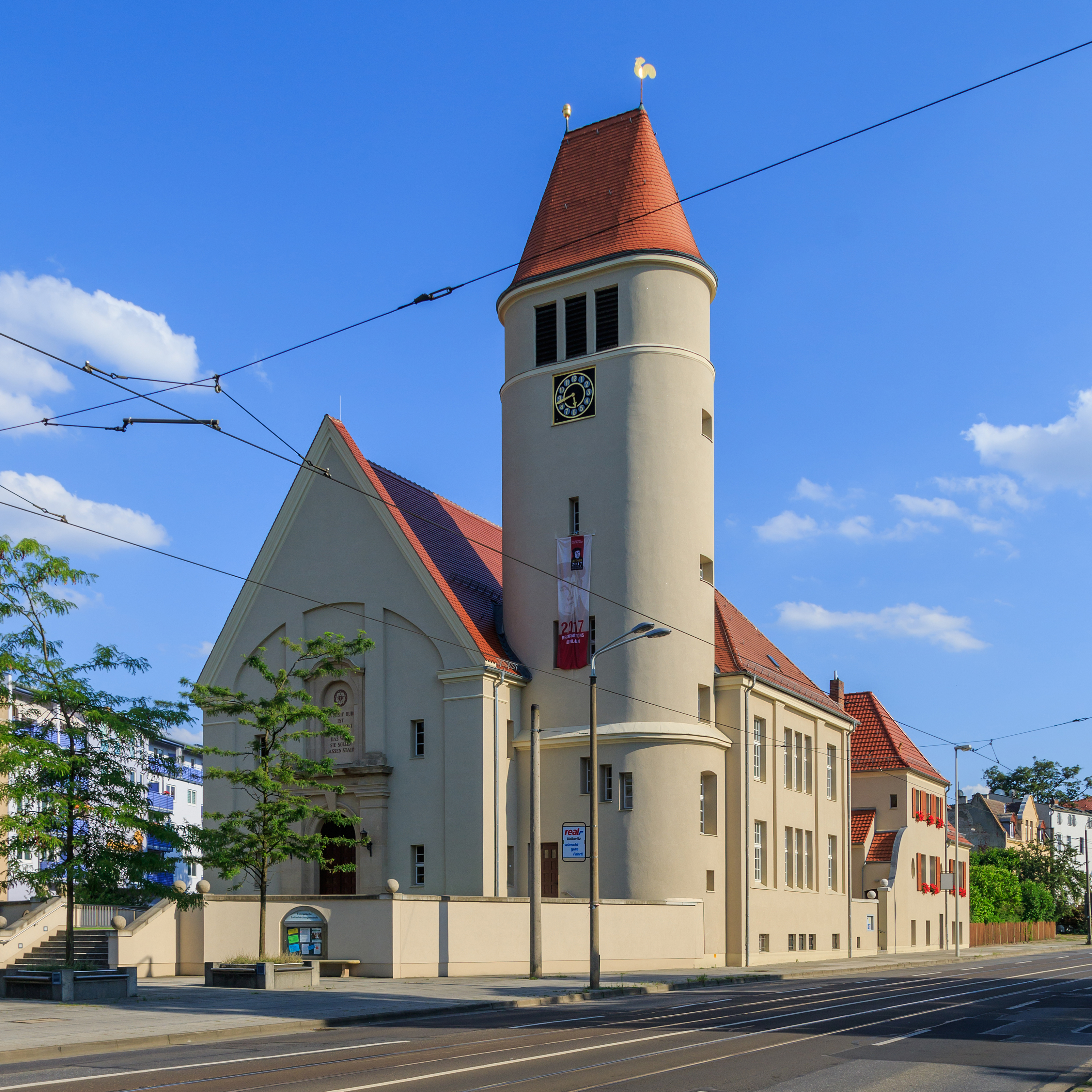 Lutheran Church in Cottbus (Germany)